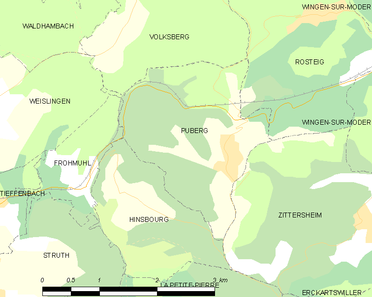 Map of French municipality